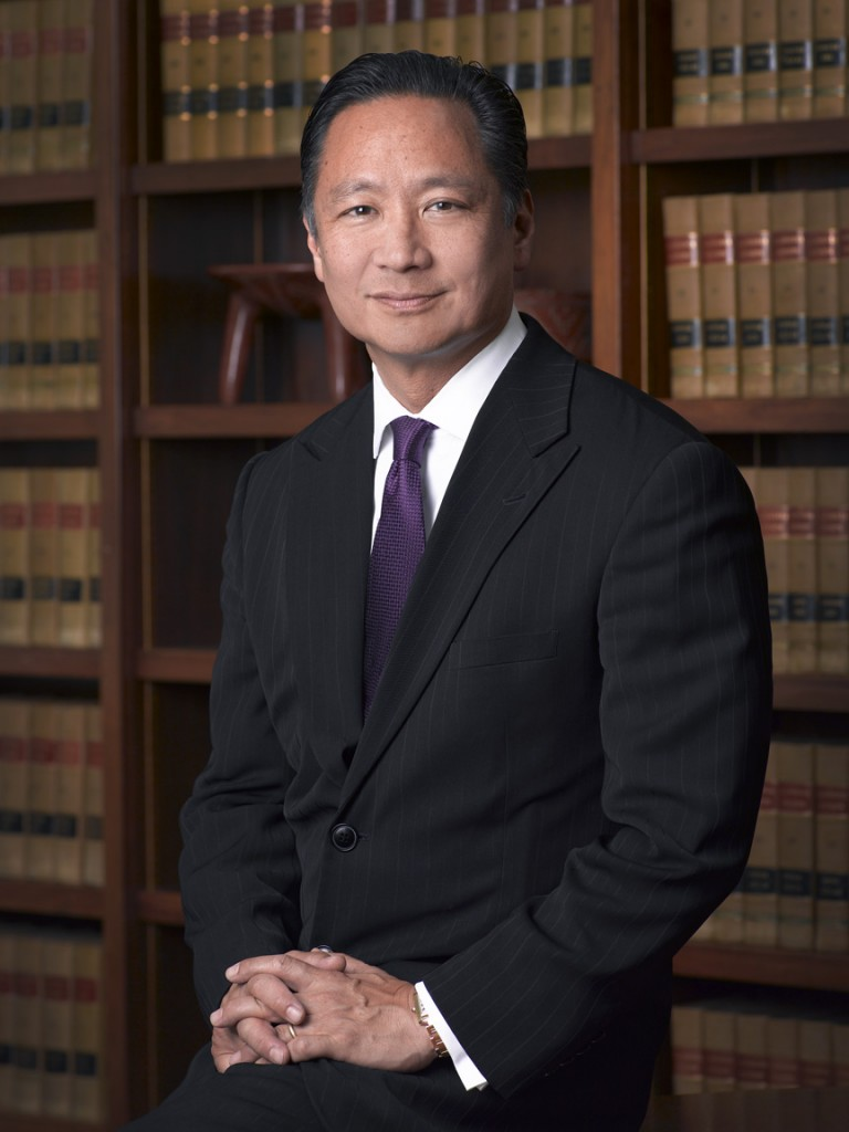 Official Portrait of Public Defender Jeff Adachi